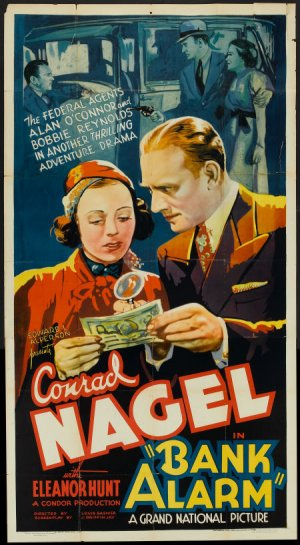 Poster for the 1937 film Bank Alarm. A search for renewals was done in both film and artwork for the years 1944 and 1945. There were no listings for the title in film and a search of "bank alarm" in artwork turned up only listing pertaining to actual banks and alarms, not films. There's no evidence of continuing copyright on the film or material related to it.